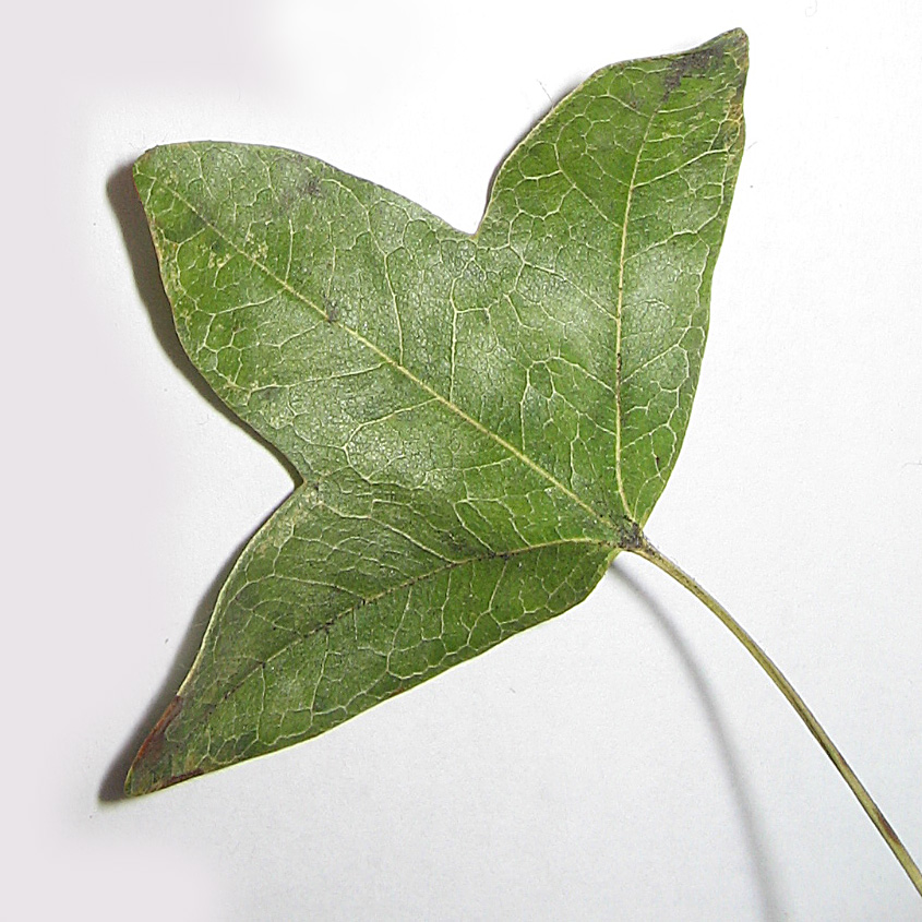 Acer monspessulanum leaf